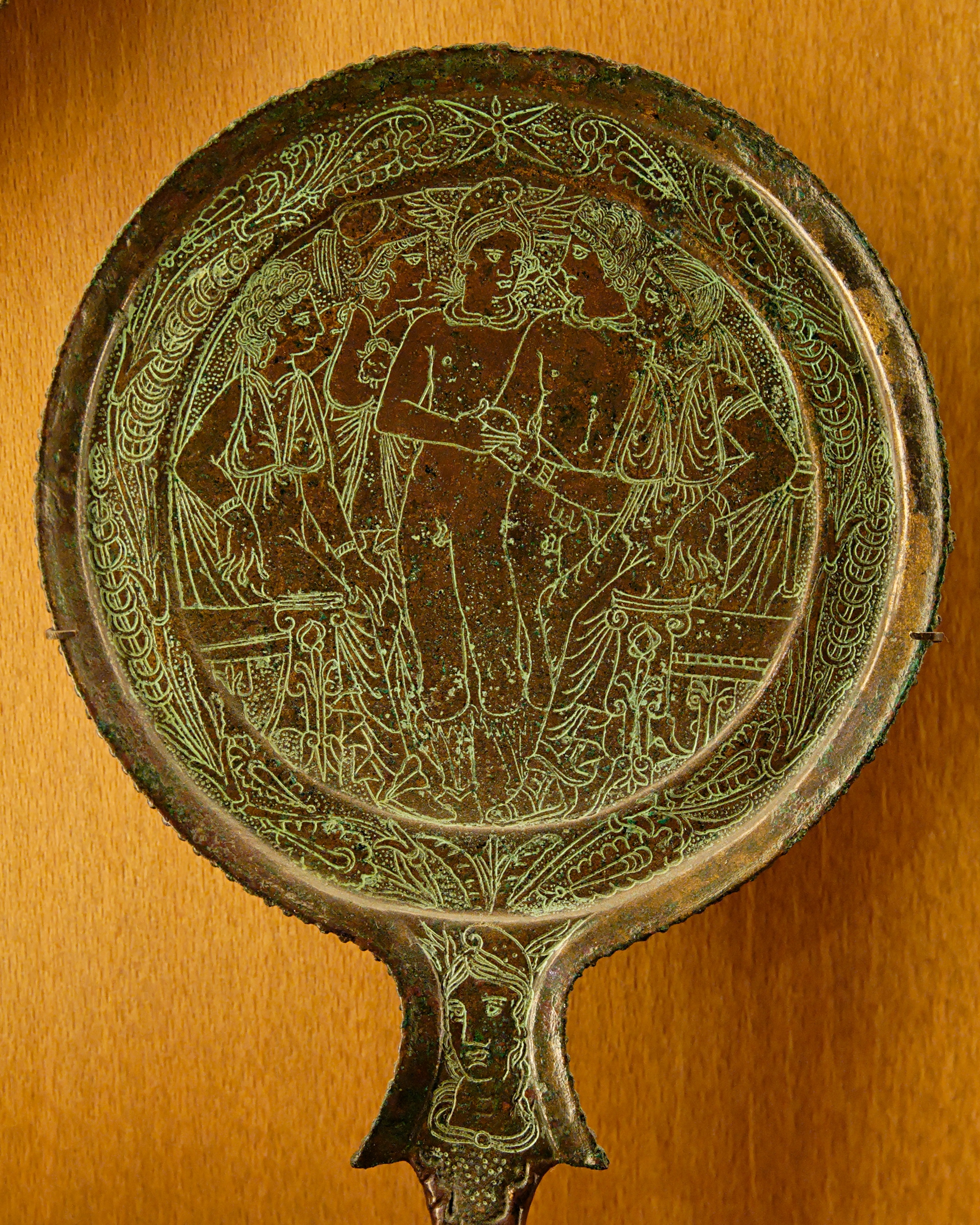 The Judgement of Paris. Bronze handle mirror, Etruscan artwork.